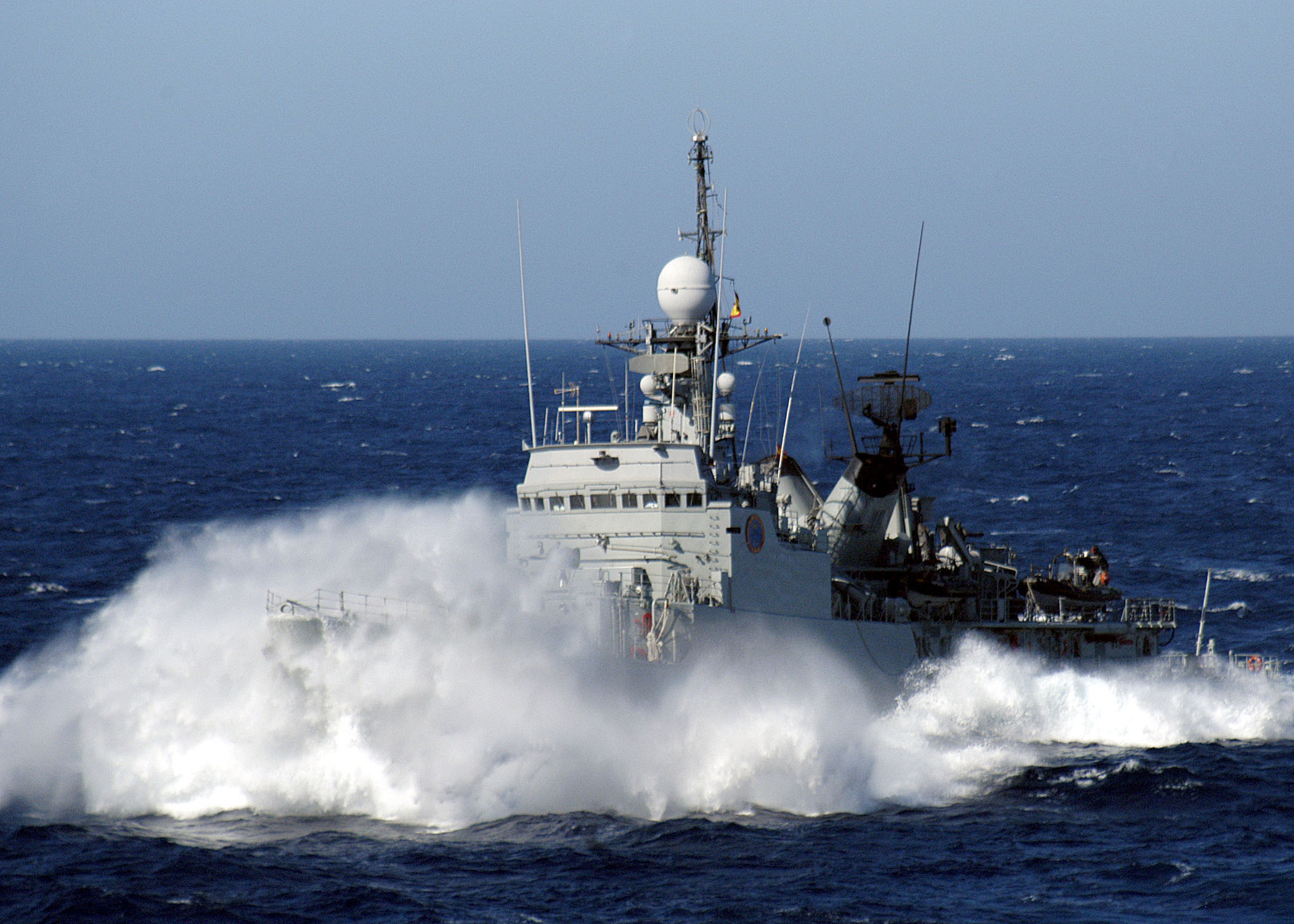 Spanish corvette SPS Infanta Elena (P-76) crashes through the waves while coming along side the amphibious assault ship USS Saipan (LHA 2) during a Photographic Exercise (PHOTOEX). Saipan is participating in a multi-national combined exercise with North African and European forces during exercise Phoenix Express. The exercise provides U.S. and allied forces an opportunity to participate in diverse maritime training scenarios helping to increase maritime domain awareness and strengthen emerging and enduring partnerships.